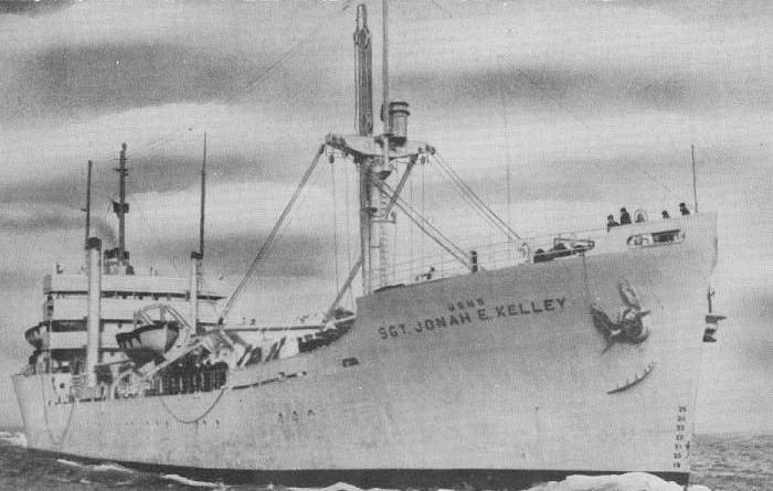 USS Sargent Jonah E Kelly (APC-116)